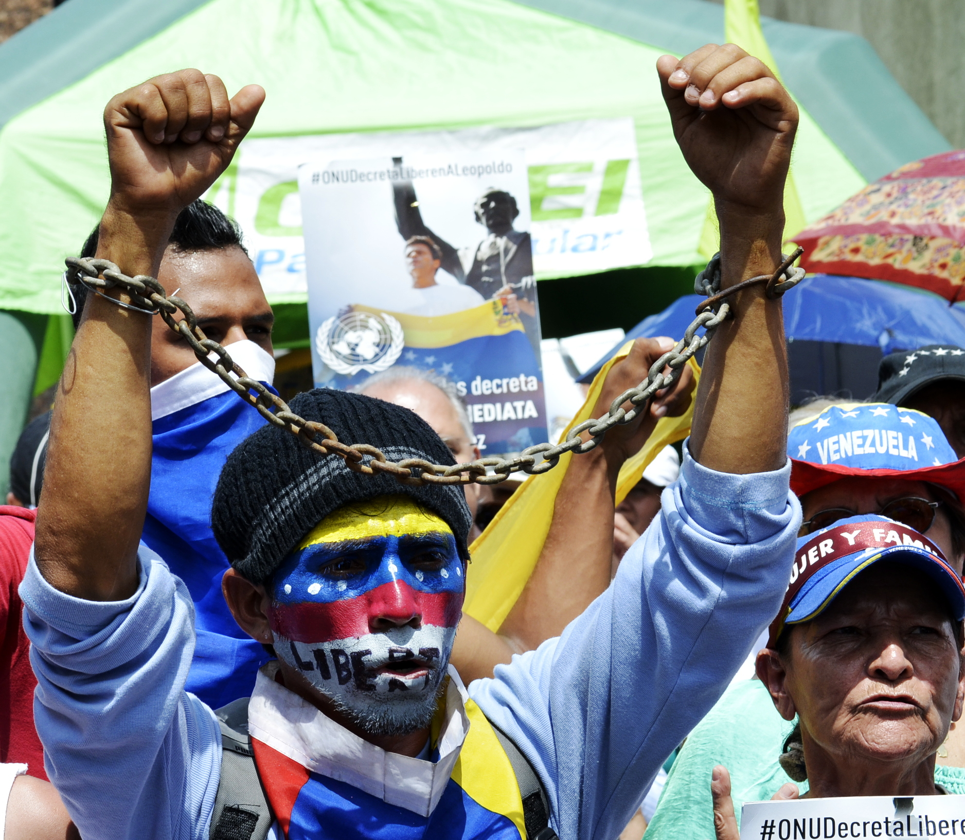 An individual demonstrating, symbolically wearing chains.